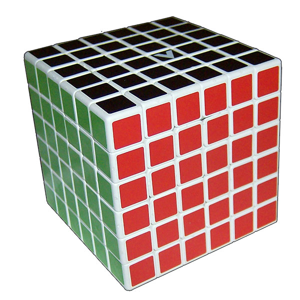 Smaller image of solved V-Cube 6 oriented differently.